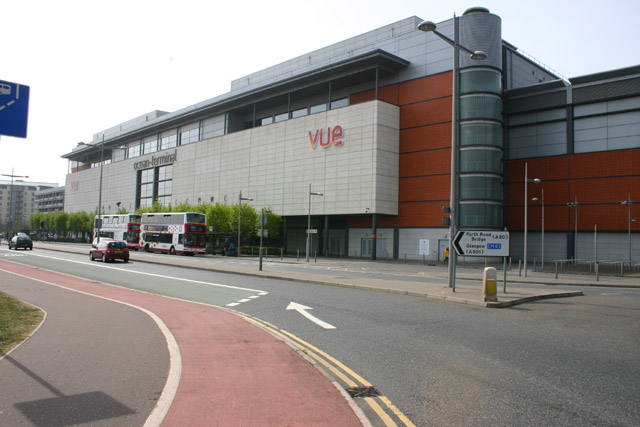 Ocean Terminal, near to Leith, Edinburgh, Great Britain. Part of the redevelopment of the Port of Leith, this building contains shops, restaurants, a cinema and the entrance to HMY Britannia.